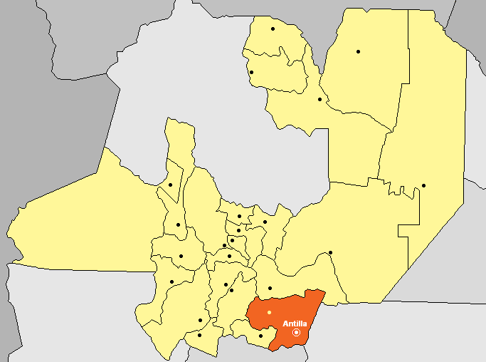 Locator map of the rural municipality of Antilla (Argentina) within Rosario de la Frontera Department (red) and Salta Province (Argentina)